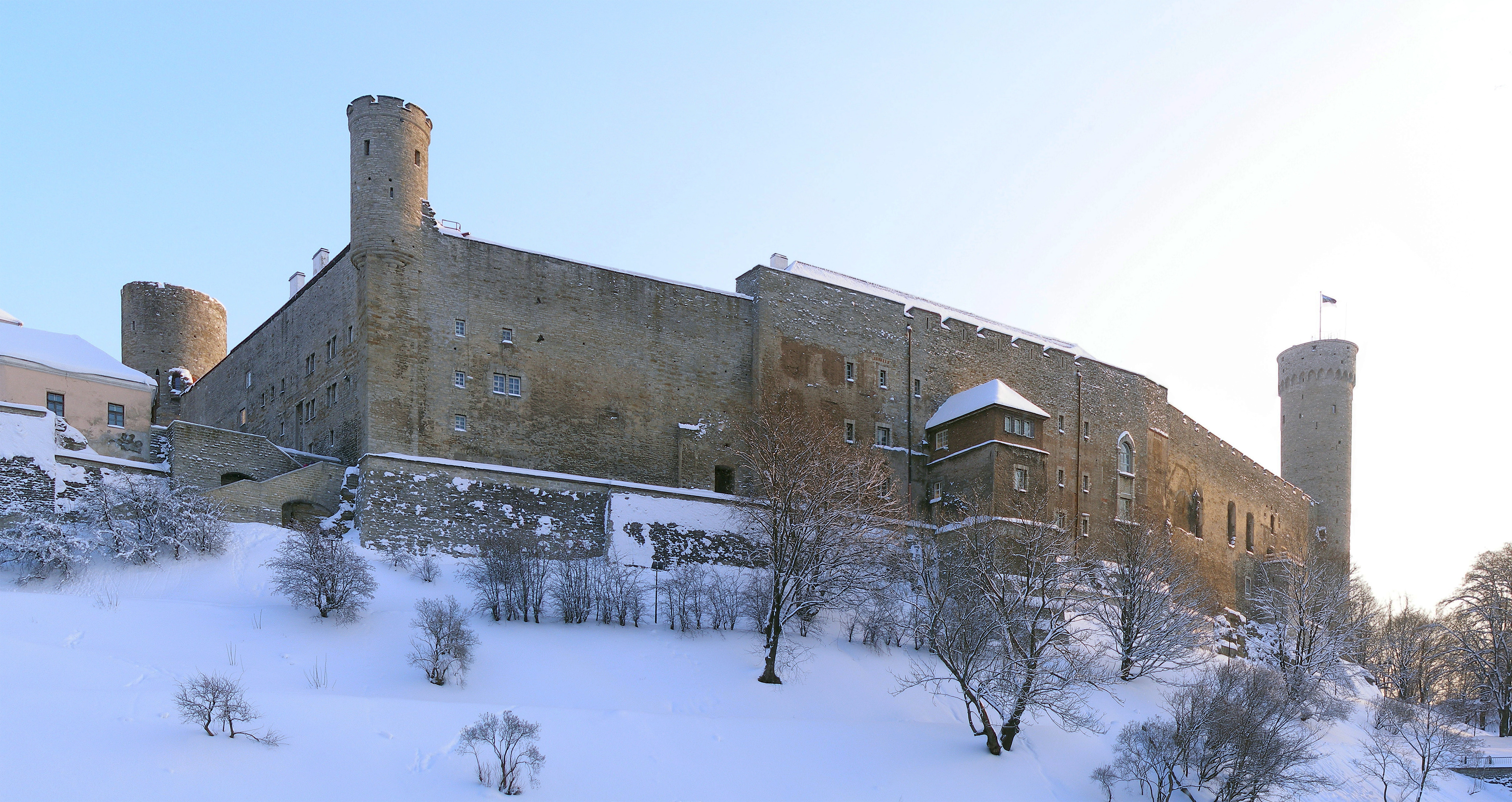 Toompea Castle, Tallinn, Estonia.